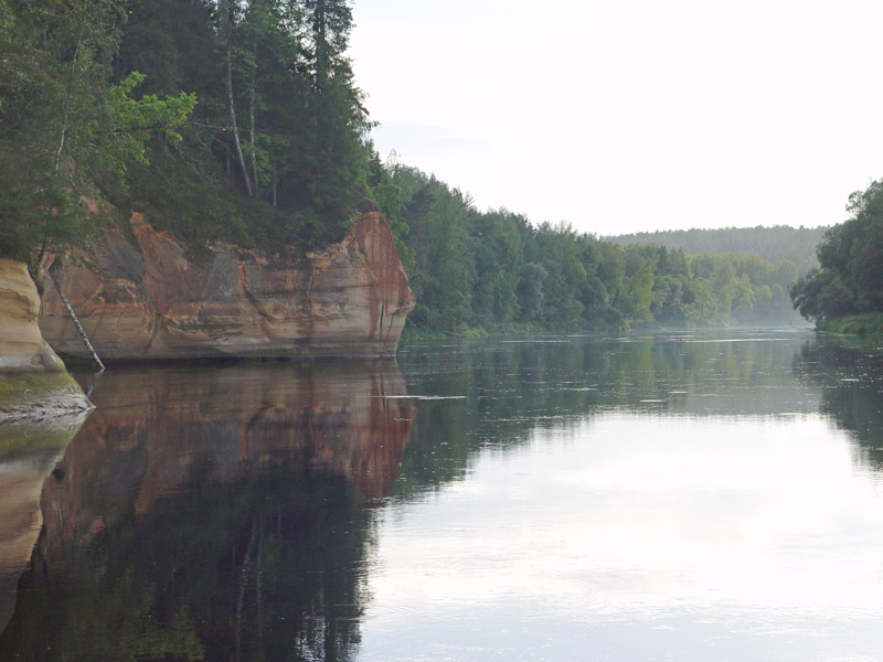 Devonian sandstone cliff - Ergelu Cliffs - at Gauja River near Cesis Town, Latvia